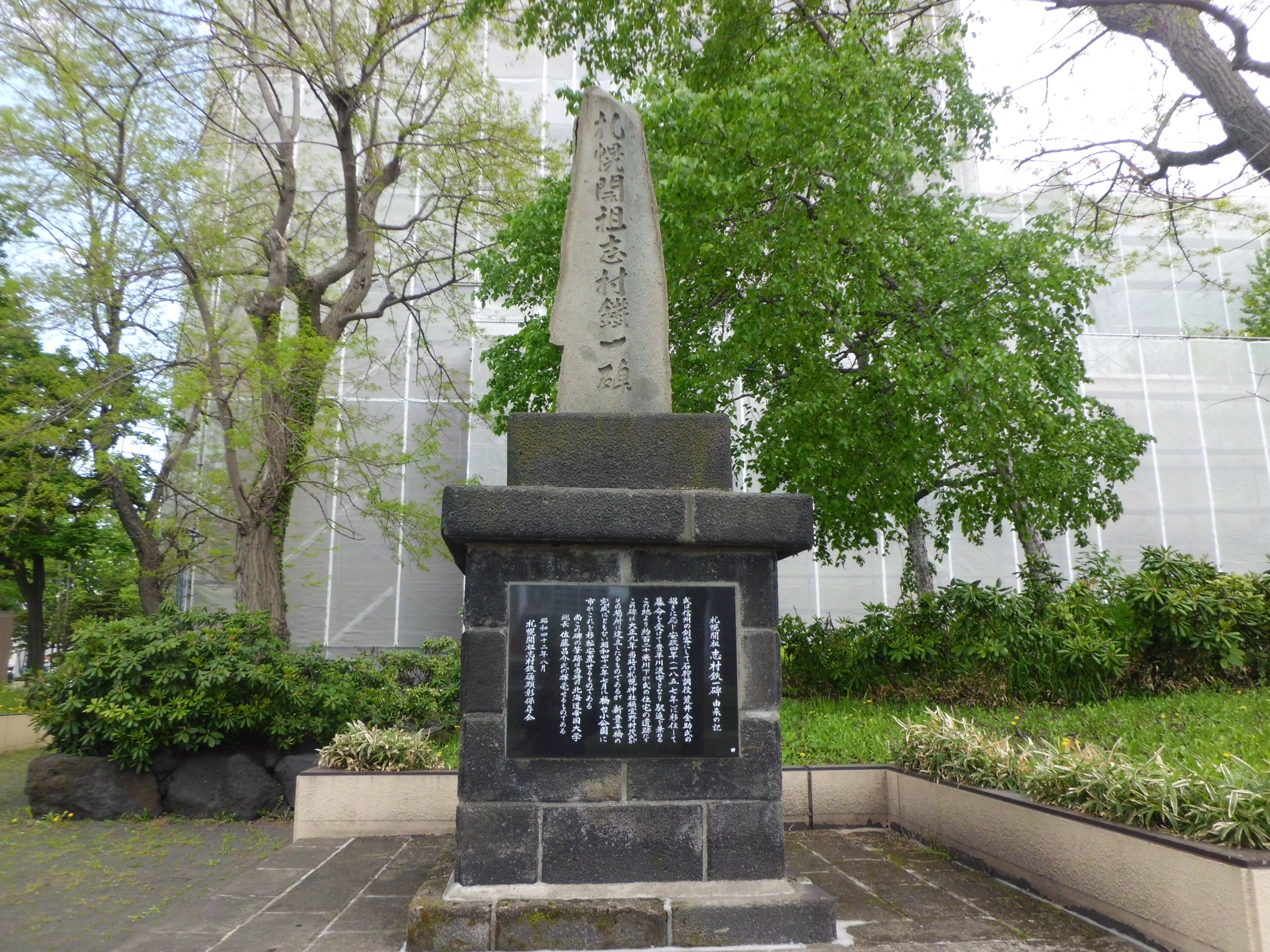 Monument of Tetsuichi Shimura